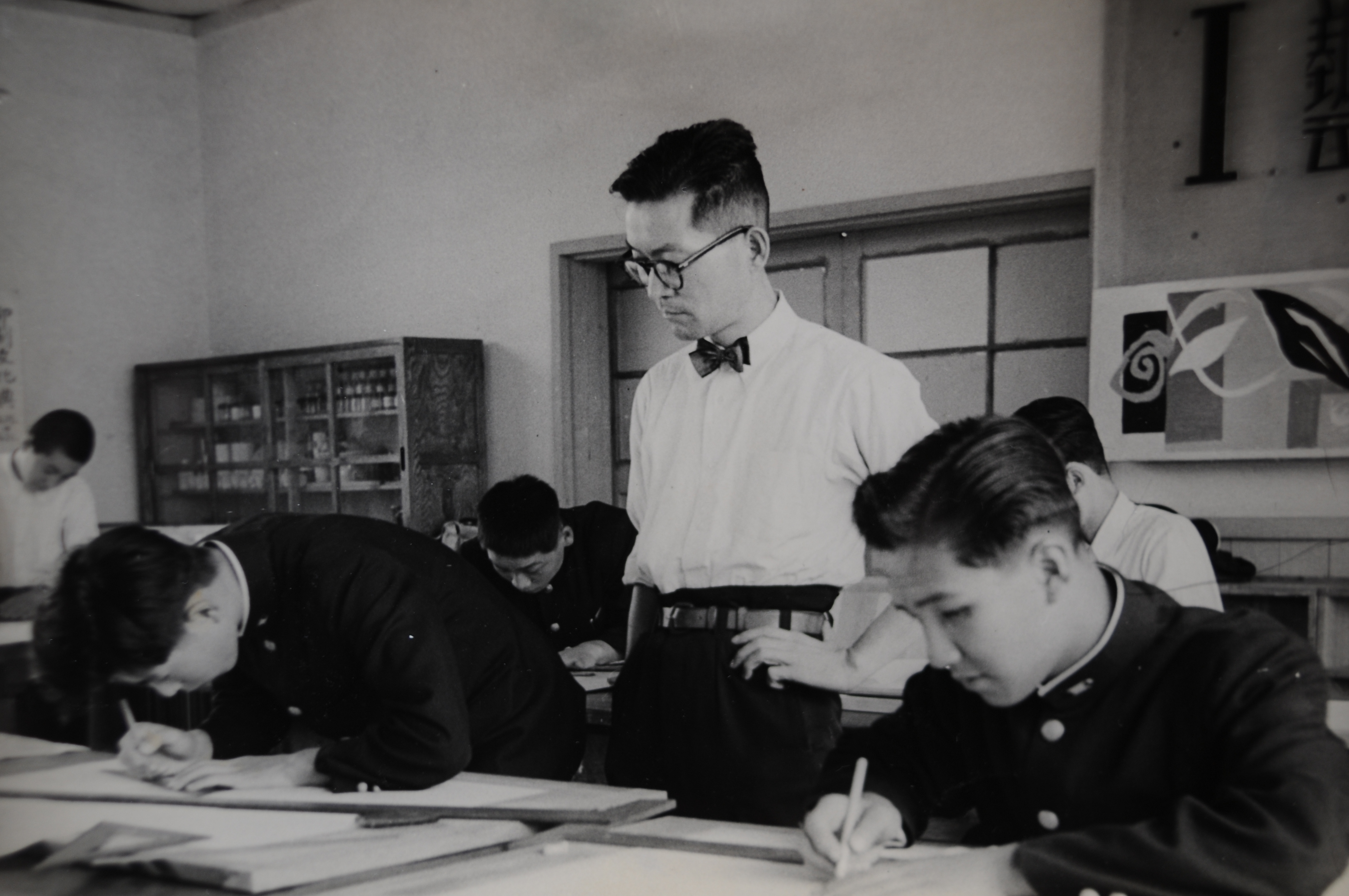 A high school class, February 1963, Kanagawa